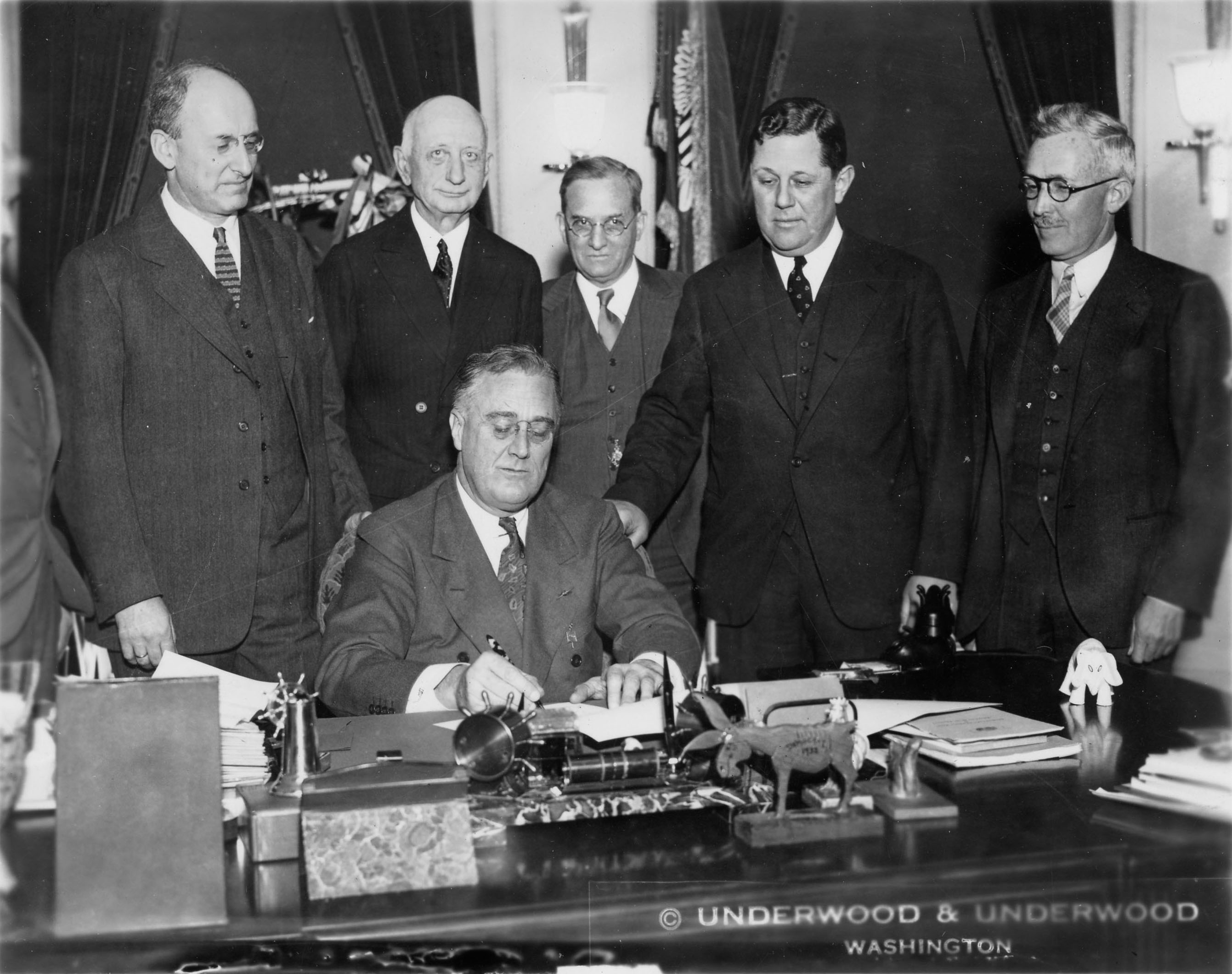 President Franklin D. Roosevelt signs the Gold Bill on January 30,1934 Photo Credit: Underwood & Underwood --Franklin D. Roosevelt Presidential Library and Museum. More information: Left to right: Henry Morgenthau Jr., Eugene R. Black, George F. Warren, Samuel Rosman and James Harvey Rogers attend as President Roosevelt signs the Gold Reserve Act into law, 30 January 1934 Gold Reserve Act of 1934.